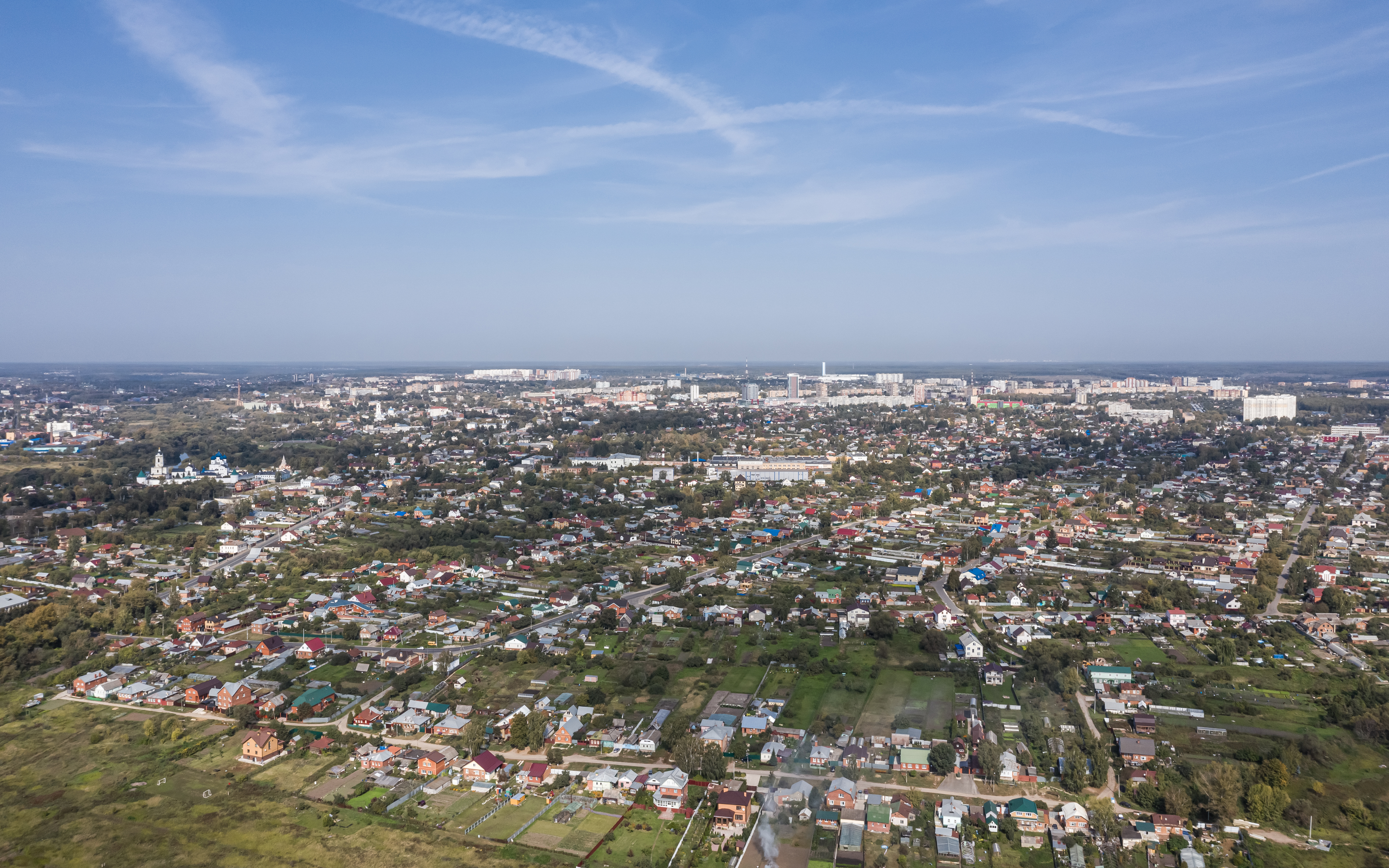 Aerial photo of Serpukhov at Oka railway station, Moscow Oblast, Russia